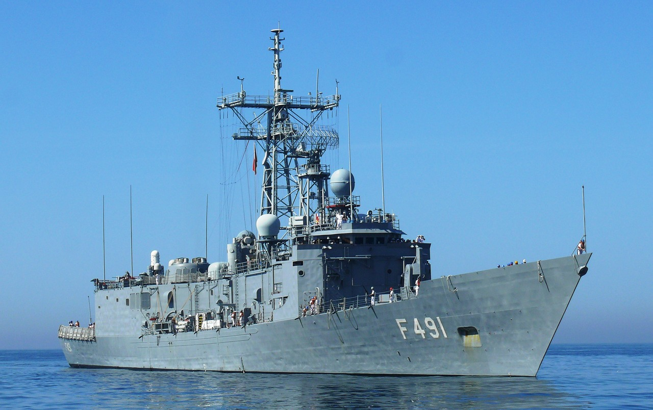 TCG Giresun (F-491) in Cartagena, 31st May 2010.